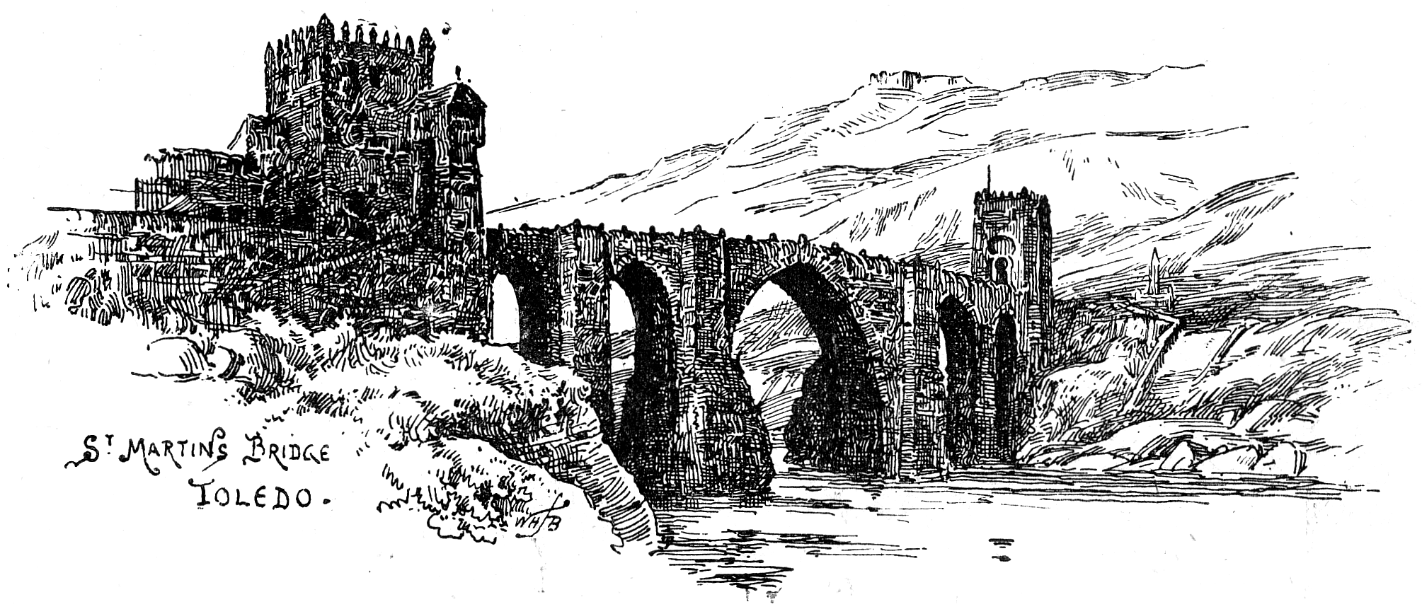 An etching from a painting of St. Martins Bridge, in Toledo. Circa 1890.